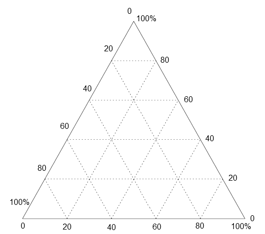 outline trilinear diagram